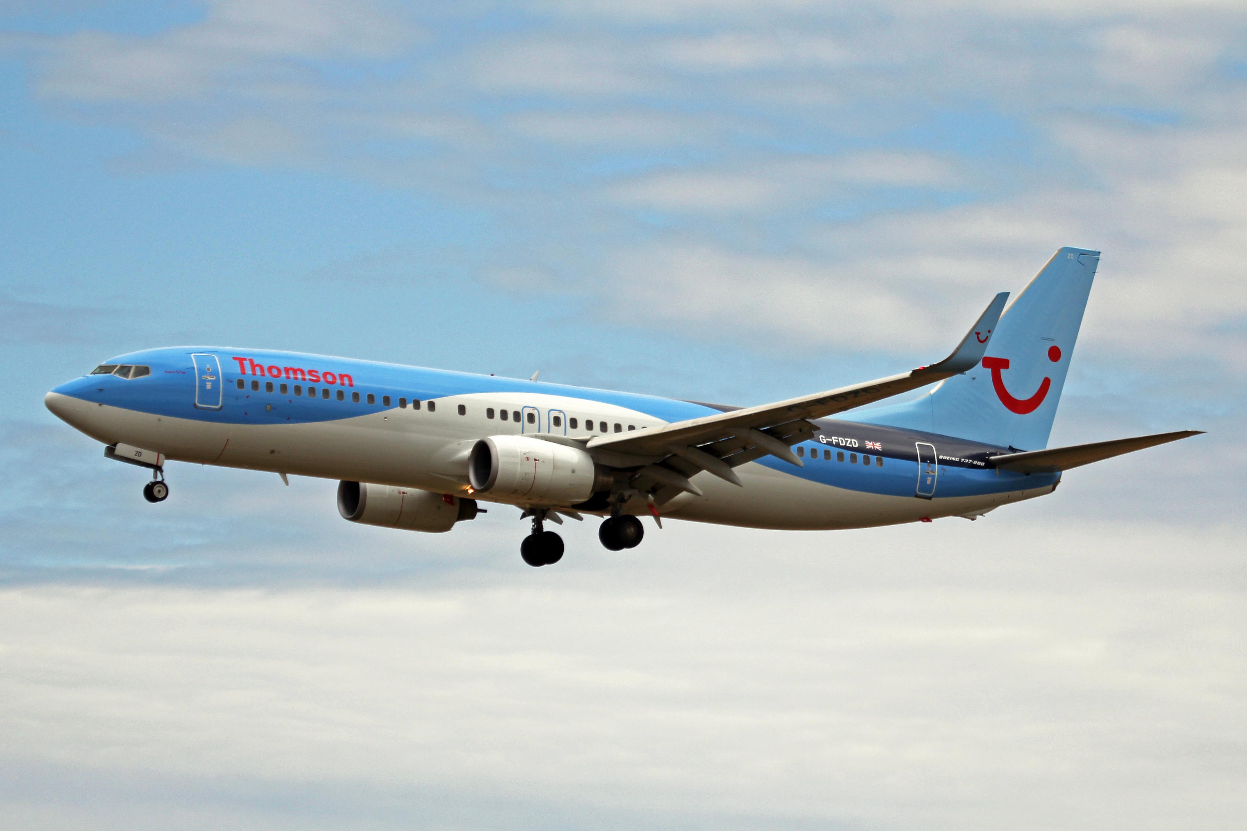 Now repainted in the 'Dreamliner' style c/scheme.